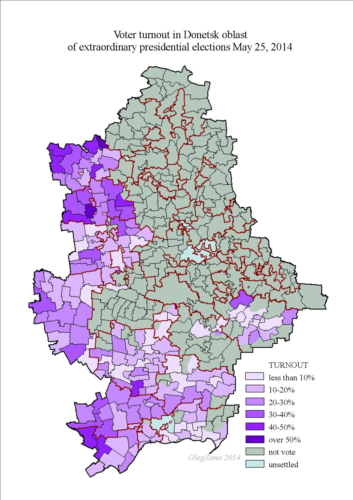 Voter turnout in Donetsk oblast of extraordinary presidential elections May 25, 2014